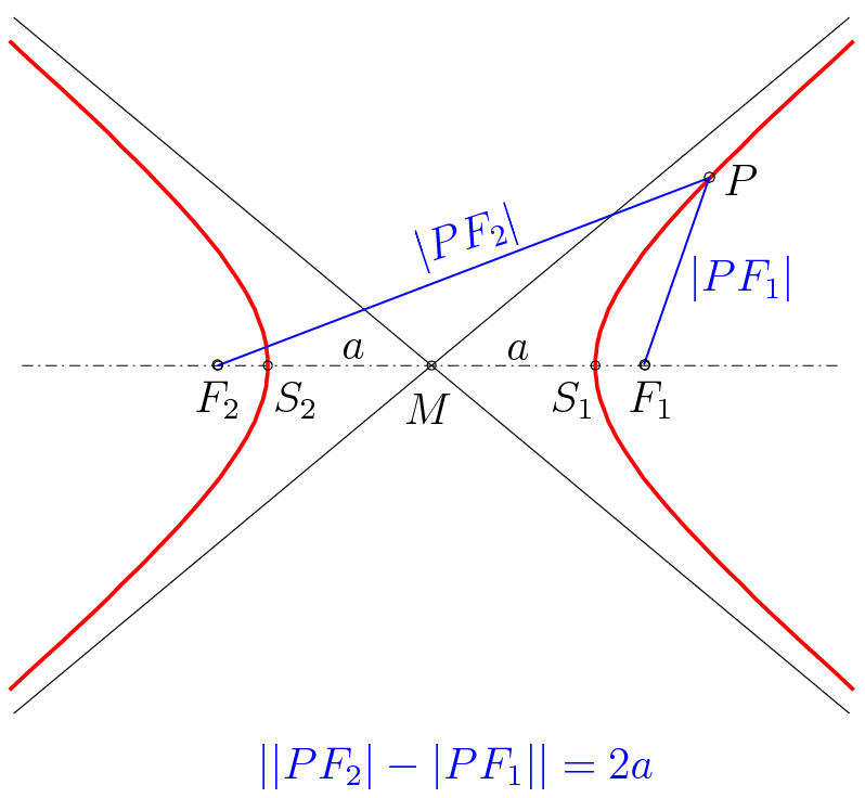 hyperbola: definition and asymptotes